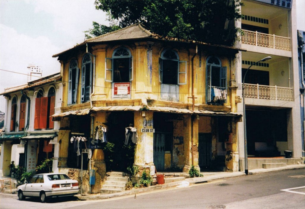 1 Ann Siang Hill, an old Chinese shophouse in Telok Ayer, Singapore. Telok Ayer was the area in Singapore which Sir Stamford Raffles assigned to Chinese immigrants in 1822.